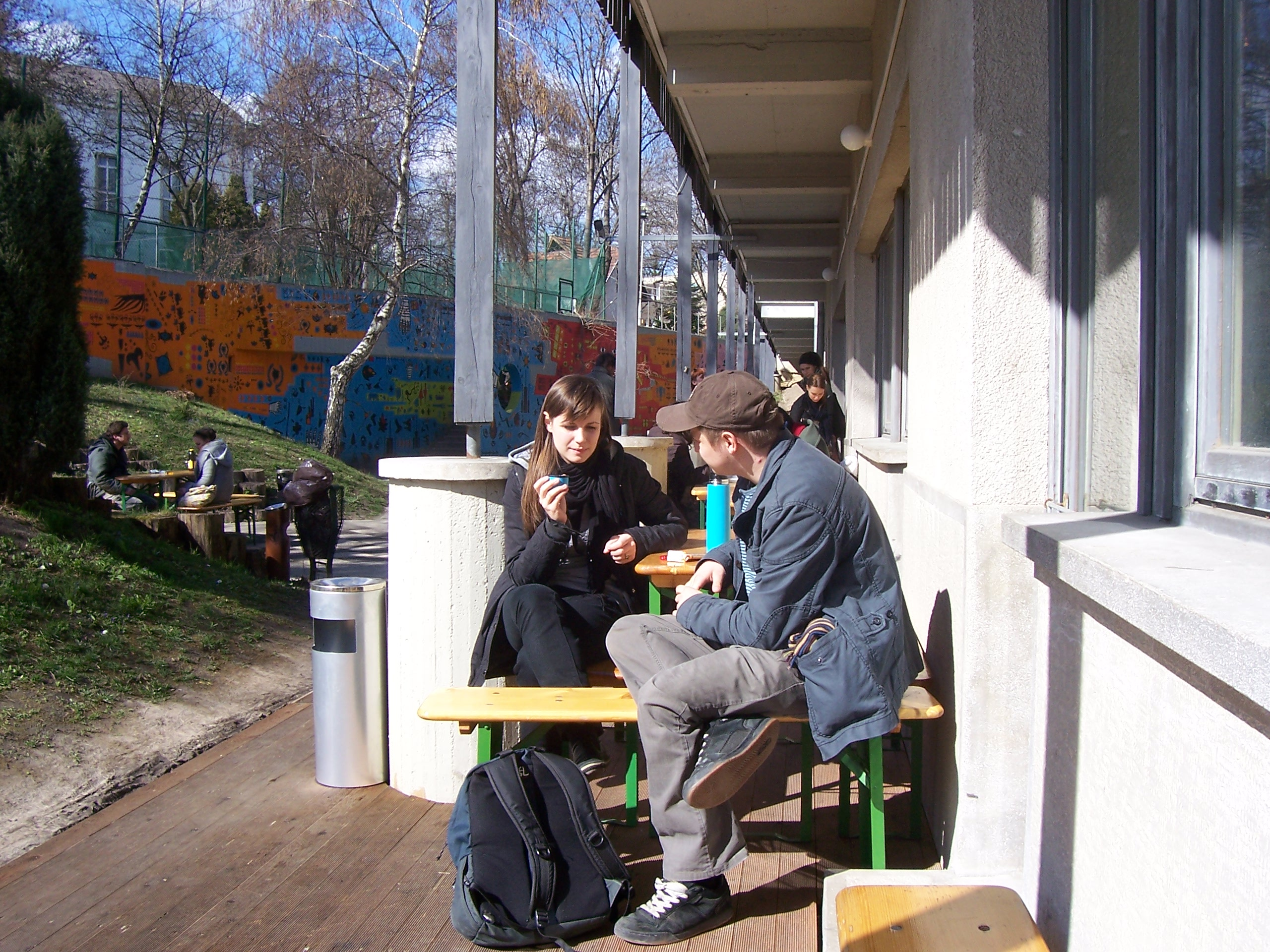 Moholy-Nagy University of Art and Design